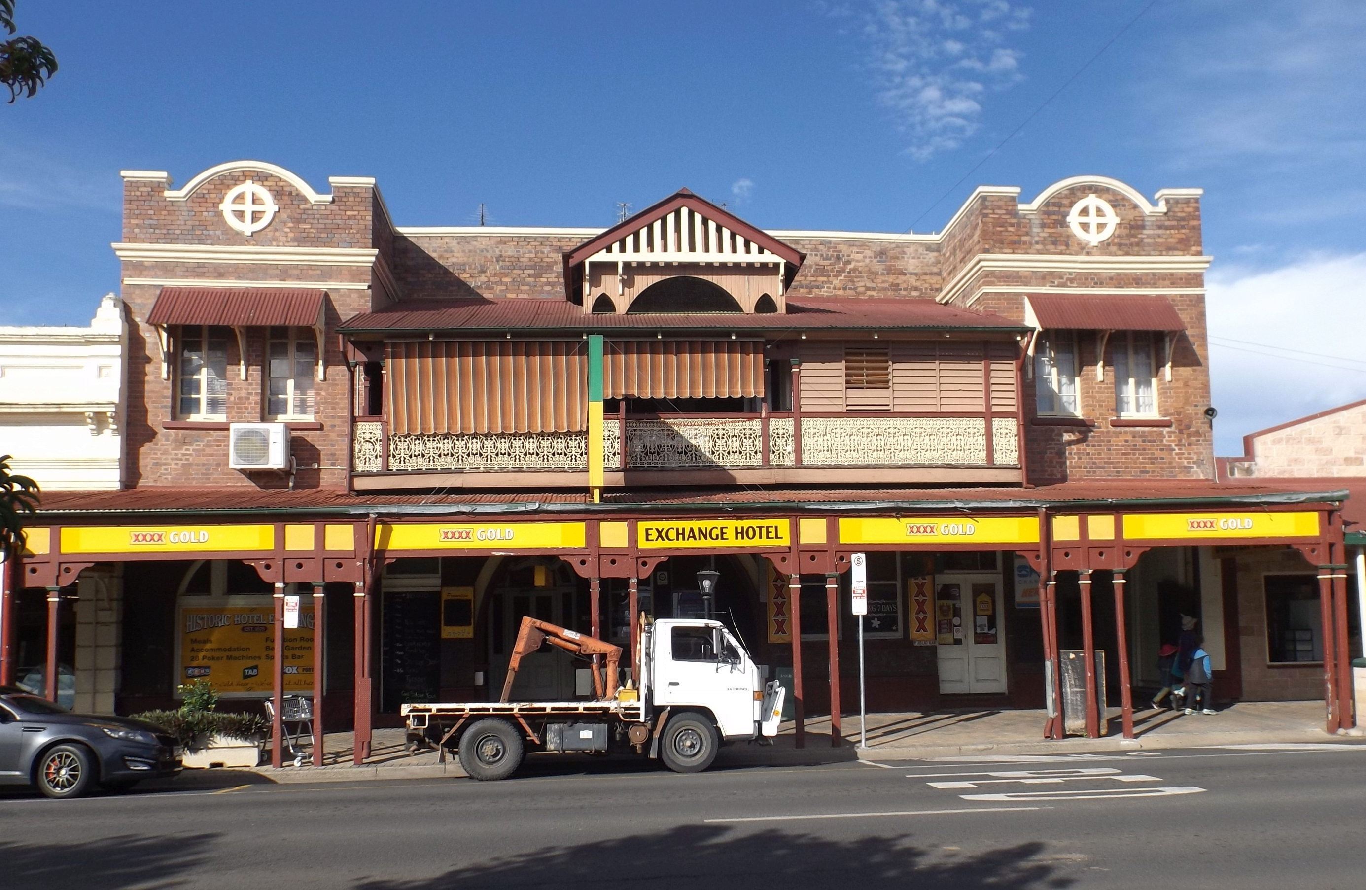 Photo of Exchange Hotel at Laidley, Lockyer Creek Region, Queensland, Australia.